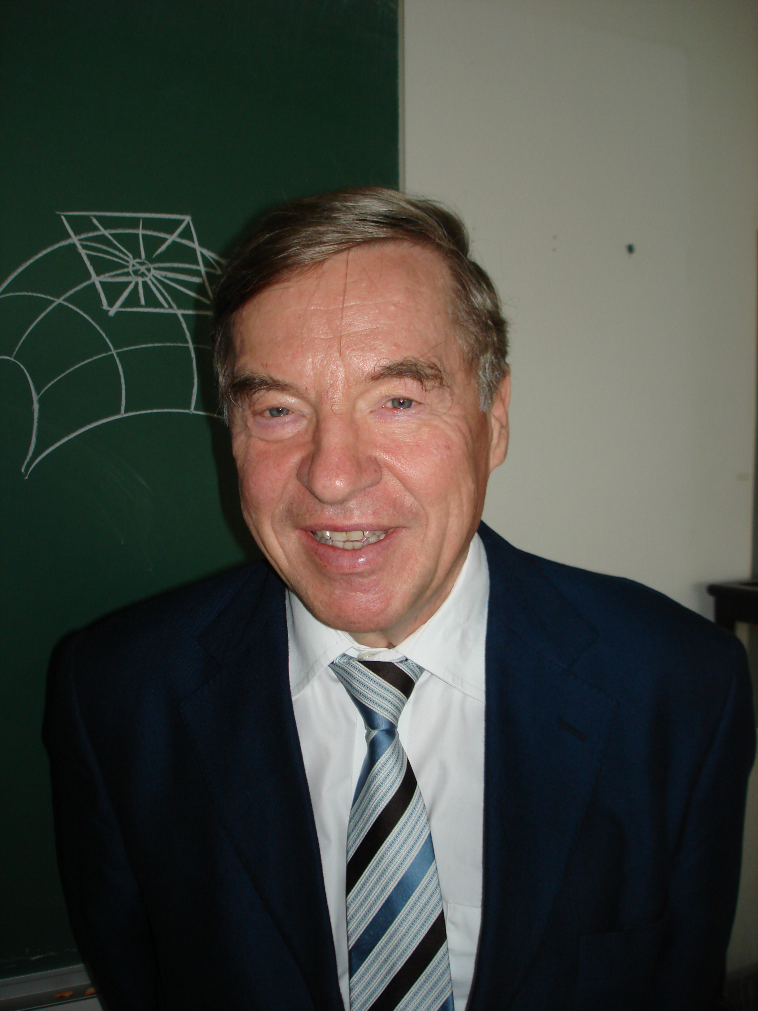 Peter Manfred Gruber, an Austrian mathematician, at TU Vienna in November 2009